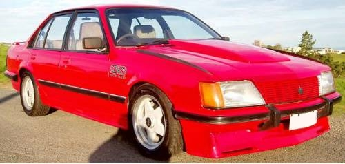 1981–1984 Holden VH Commodore SS Group 3.